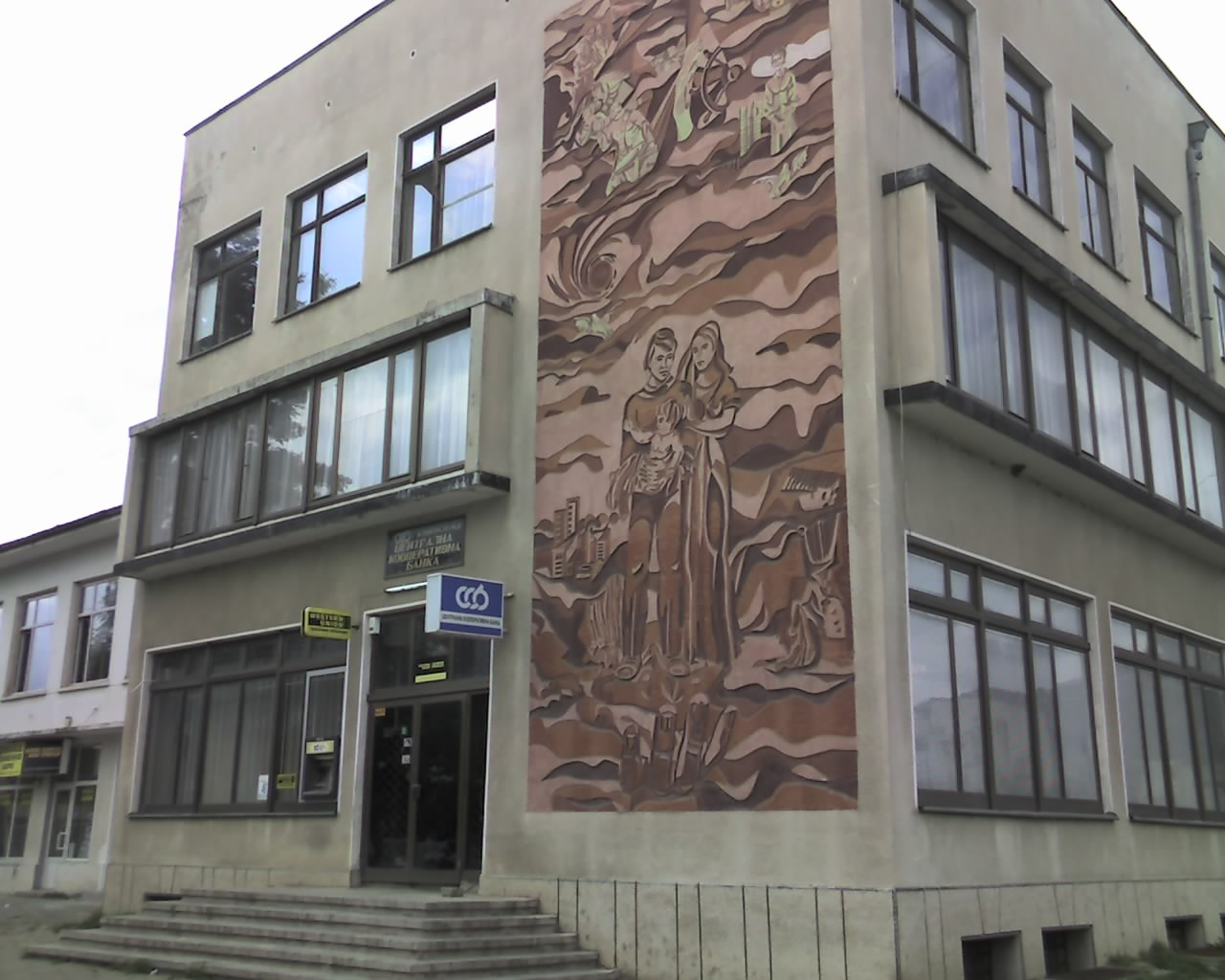 A building in the town of Zavet, Bulgaria